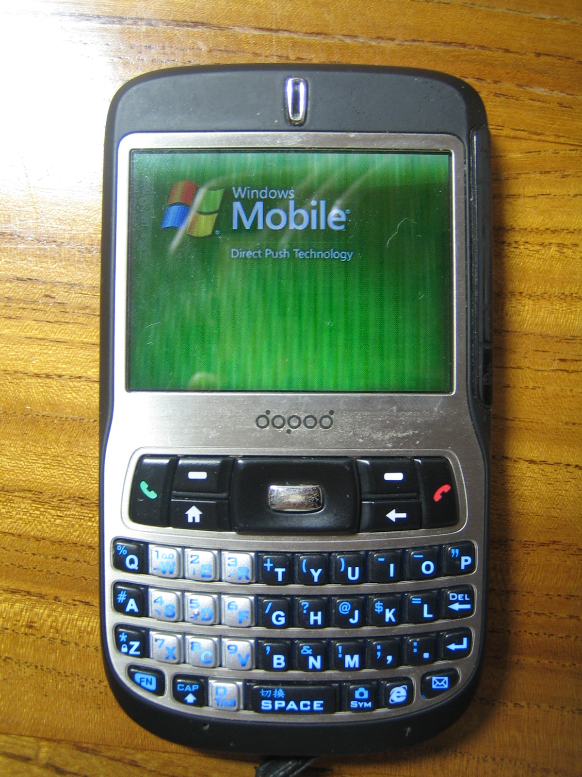 Dopod C720W phone, with Windows Mobile 5 startup screen.